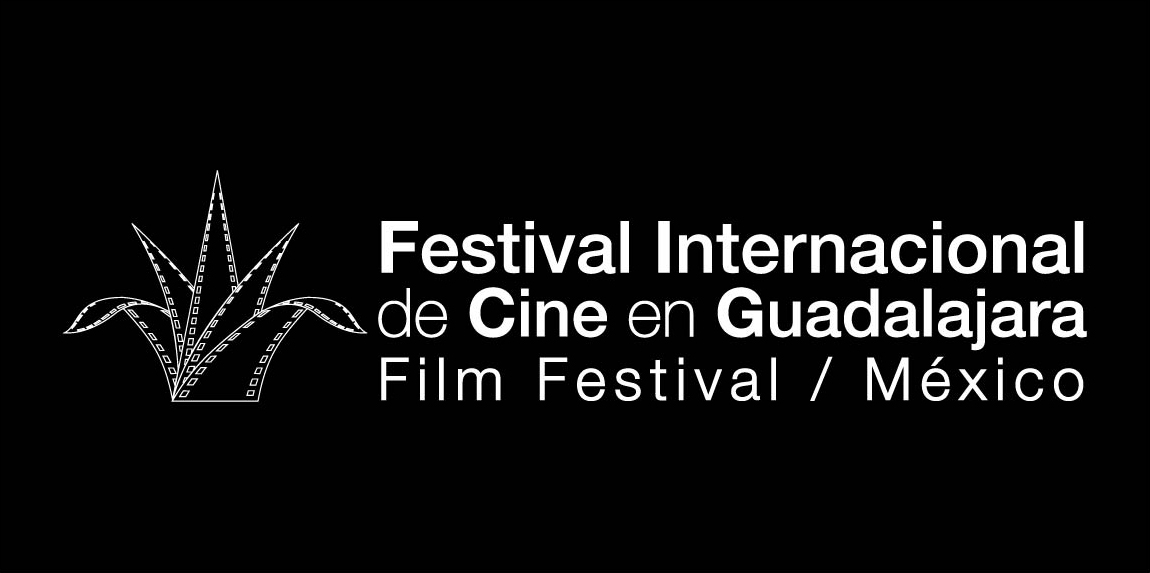 Official Logo for the Guadalajara International Film Festival